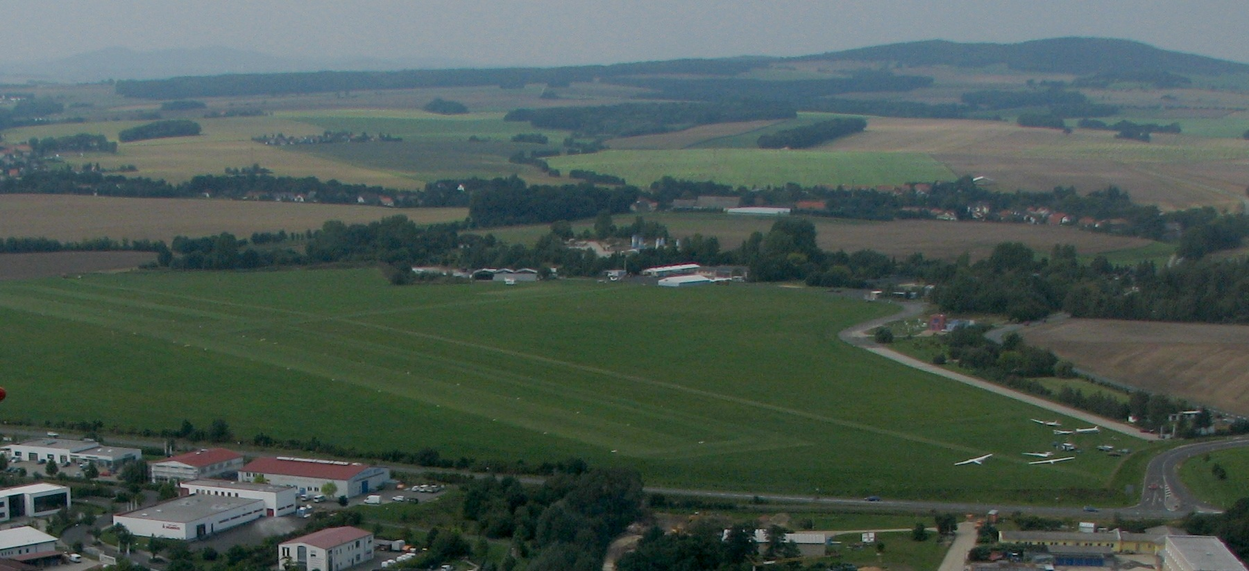 Görlitz aerial photo airfield area EDBX Photographer Wolfgang Pehlemann IMG0130